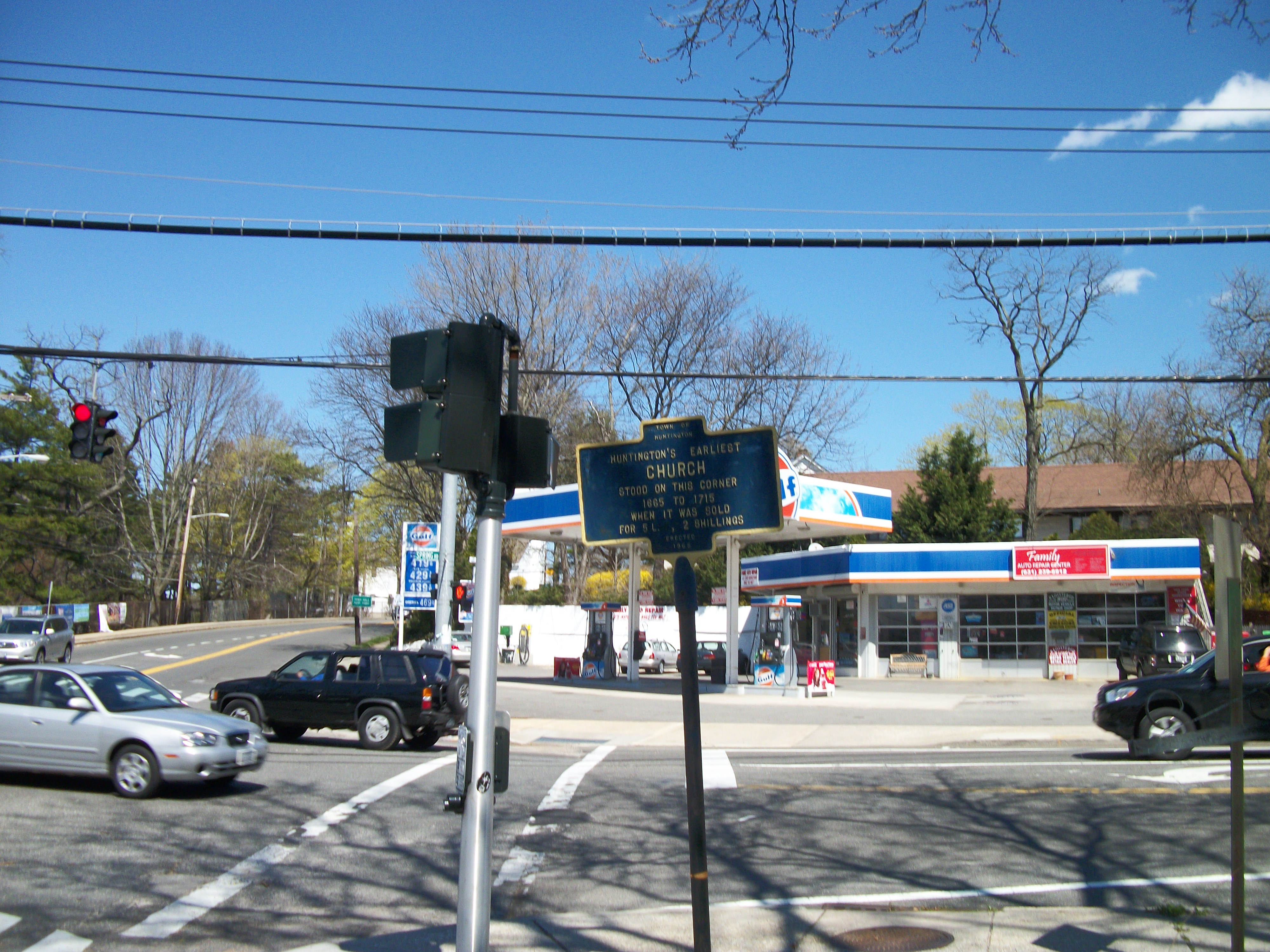 Site of the earliest church in Huntington, New York, on the corner of NY 25A and Spring Street.